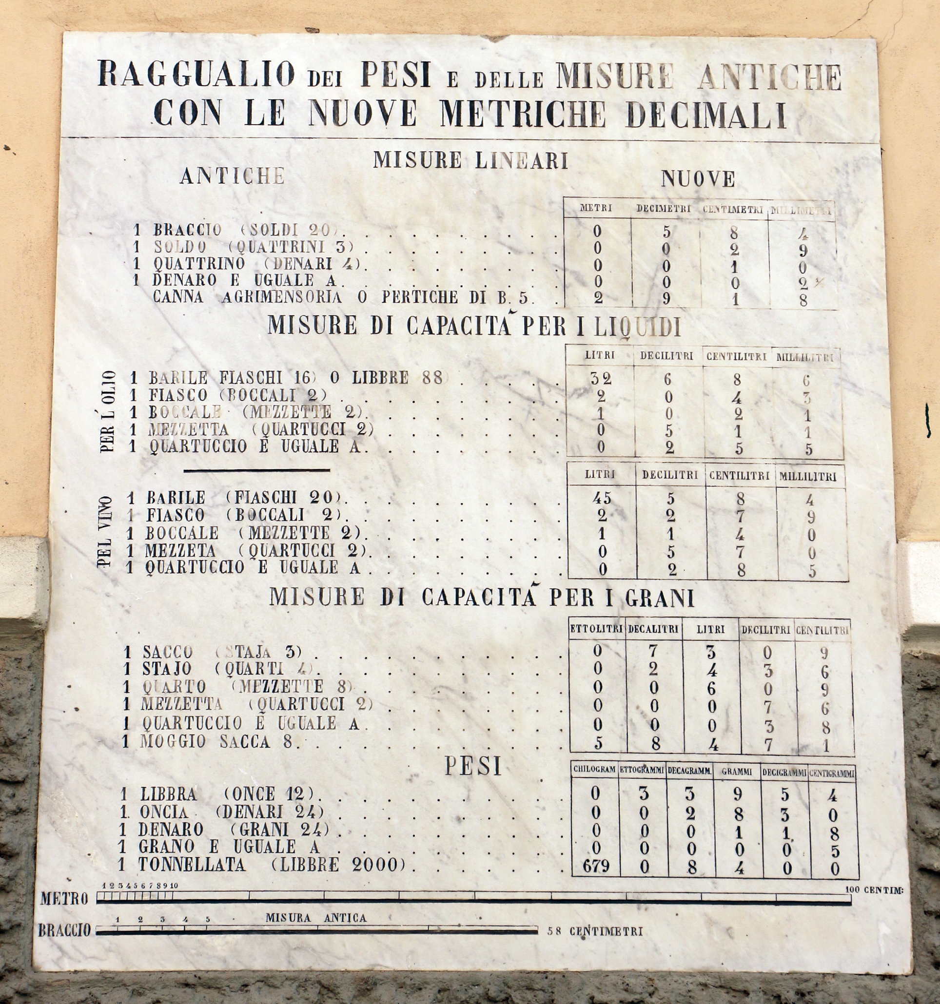 Pomarance